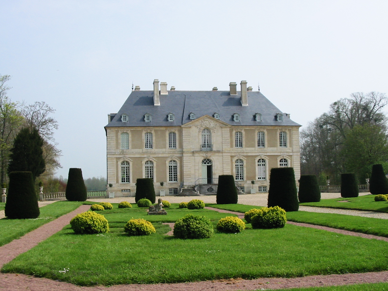 Garden and facade of castle (Normandy, France)